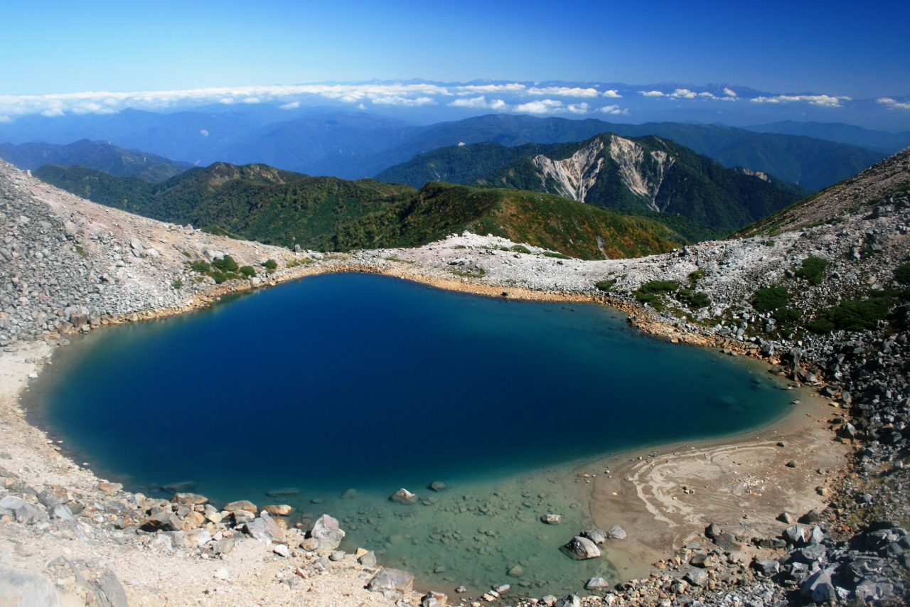 Midorigaike, pond in Mount Haku, Shirakawa Village, Gifu Prefecture, Japan.